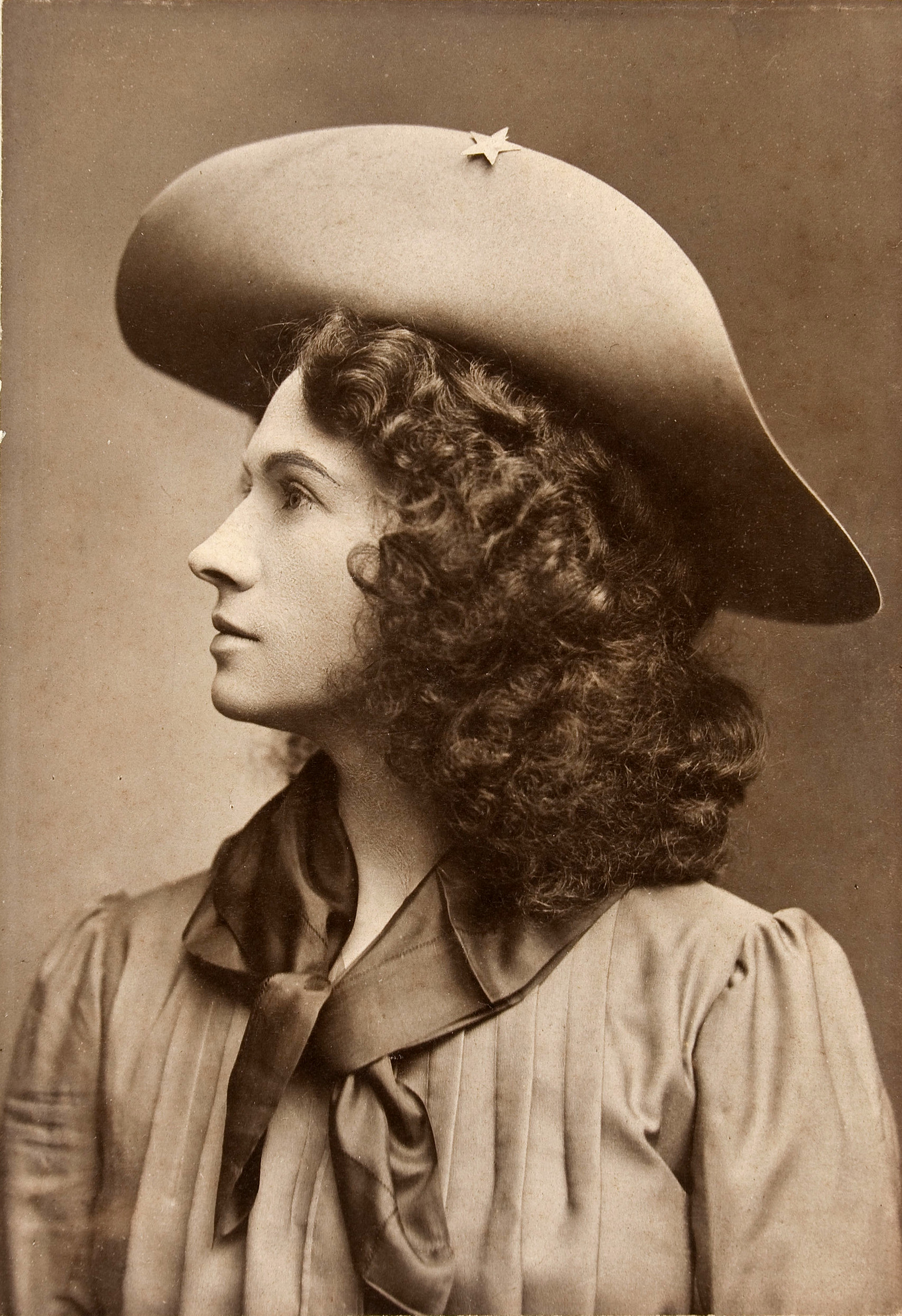 Profile shot of Annie Oakley taken in New York between 1902 and 1904.